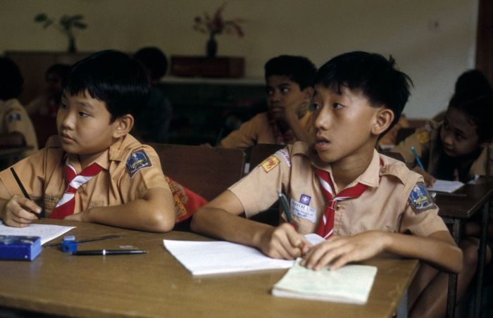 Schoolchildren getting lessons at the Bhakti Luhur centre